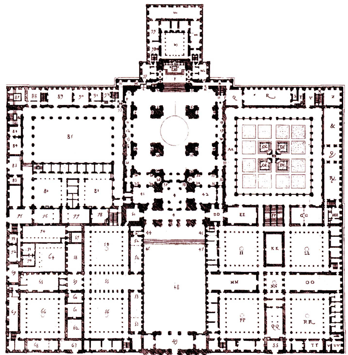 Groundplan of the Monastery of San Lorenzo de El Escorial. No. 48: Courtyard of the Kings.